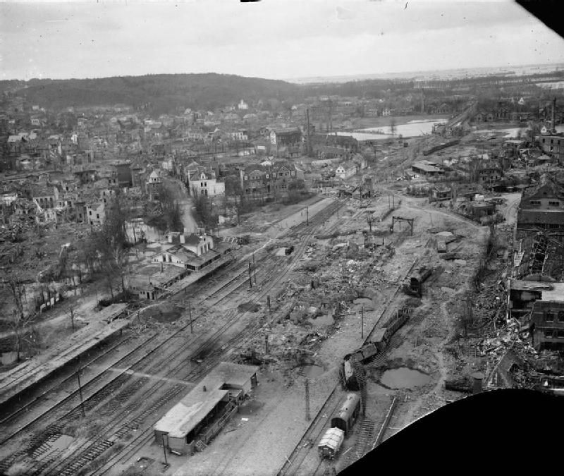 Royal Air Force Bomber Command, 1942-1945. The devastated town of Kleve, Germany, photographed from an Auster AOP aircraft, after capture. The wrecked railway station and yards lie in the foreground. The fortified town was heavily bombed by 285 Avro Lancasters of No. 1 Group, led by 10 De Havilland Mosquitos of No.8 Group on the night of 7/8 February 1945, and captured the following day by troops of the Canadian 1st Army.